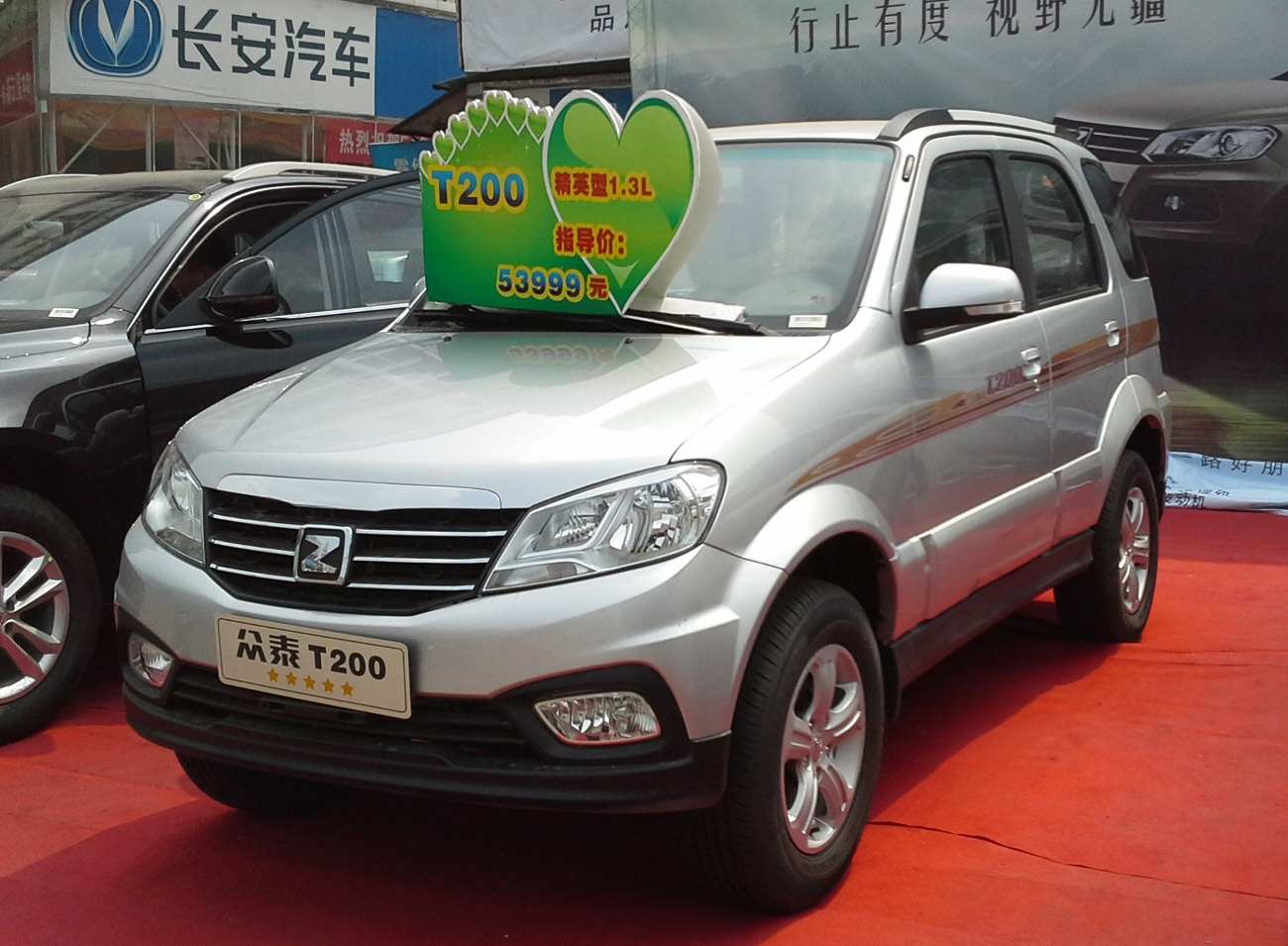 Zotye T200 photographed in Chengdu, Sichuan province, China.